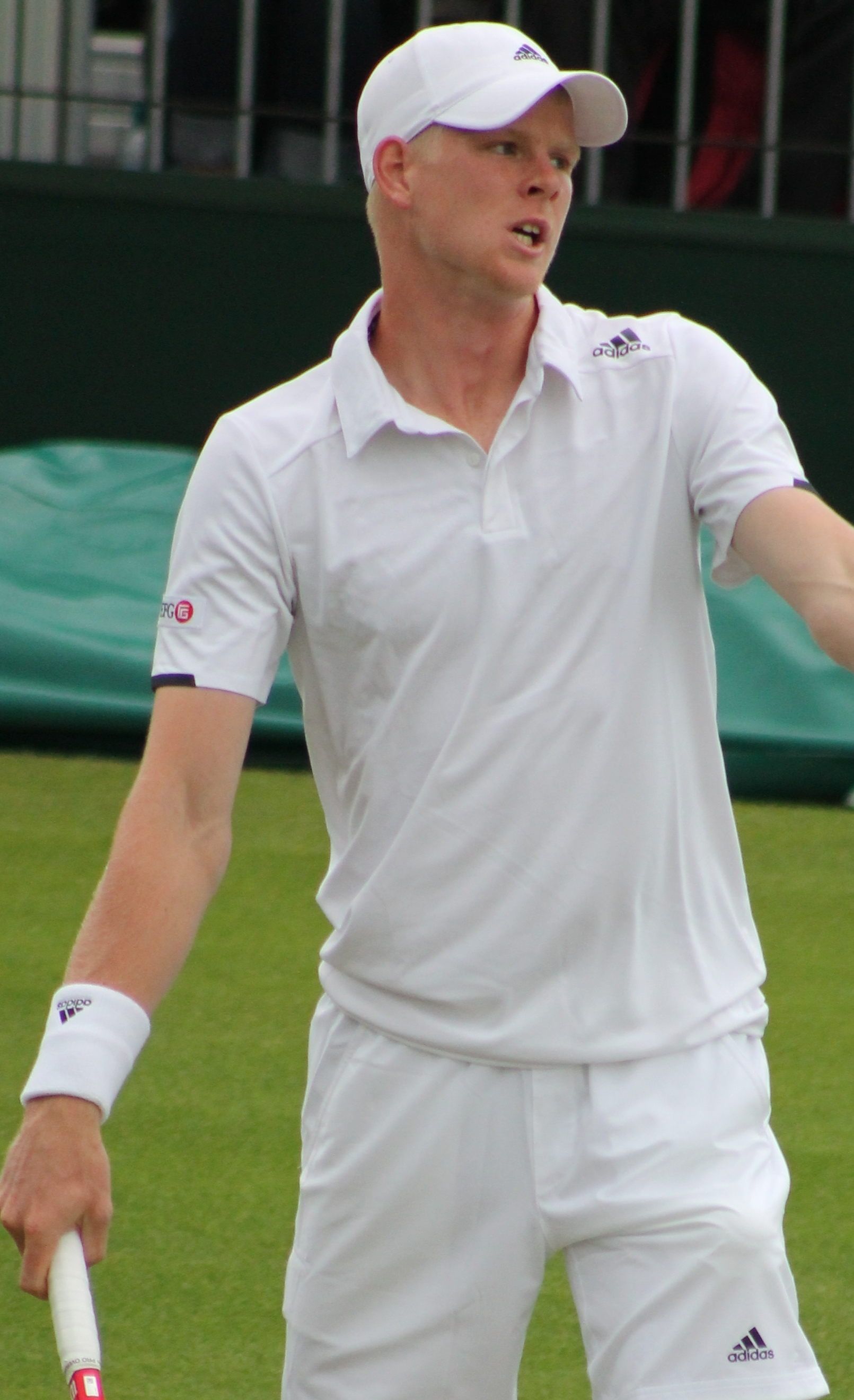 Edmund WM14 (6)